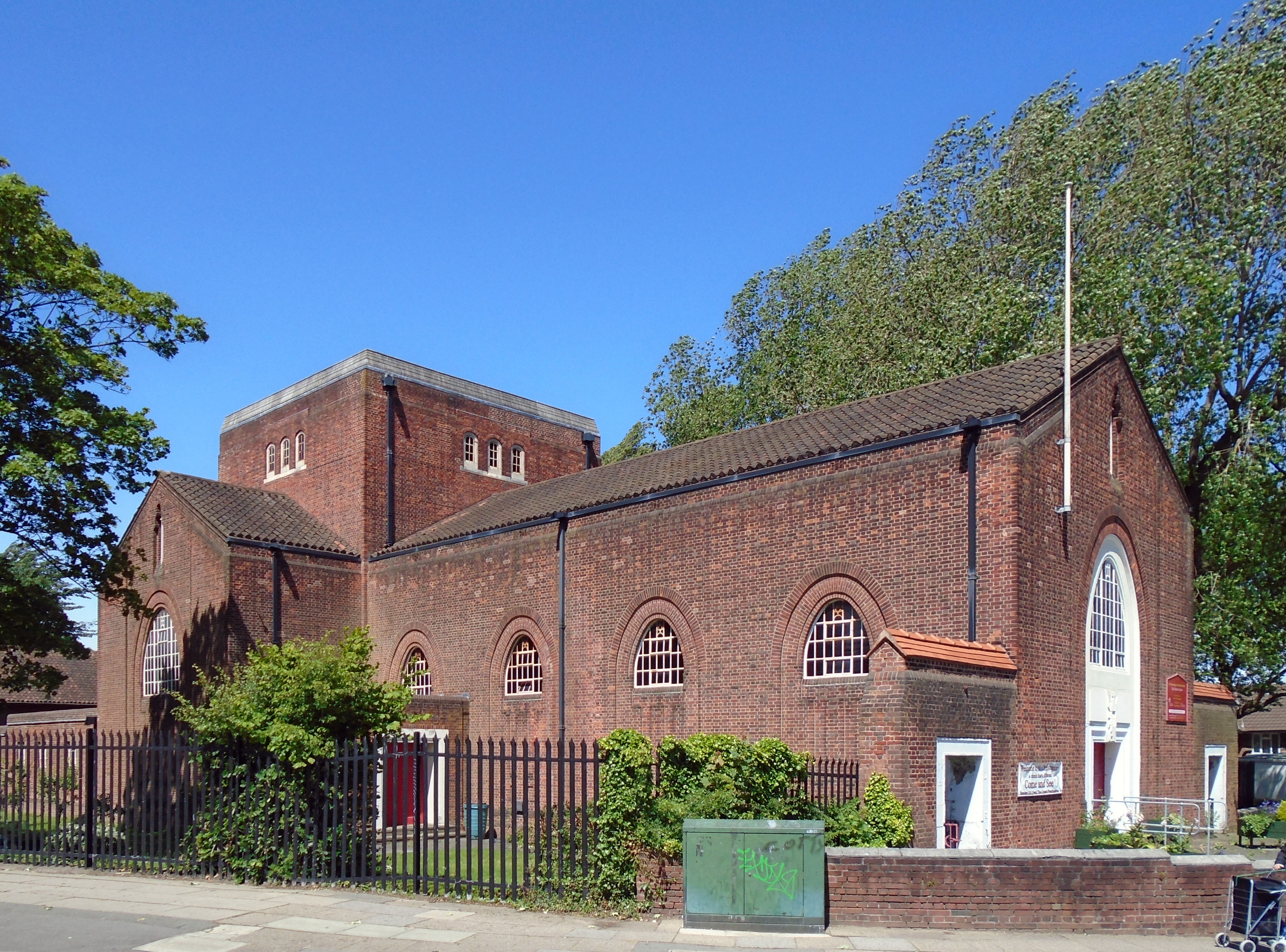 Left side on Broad Lane